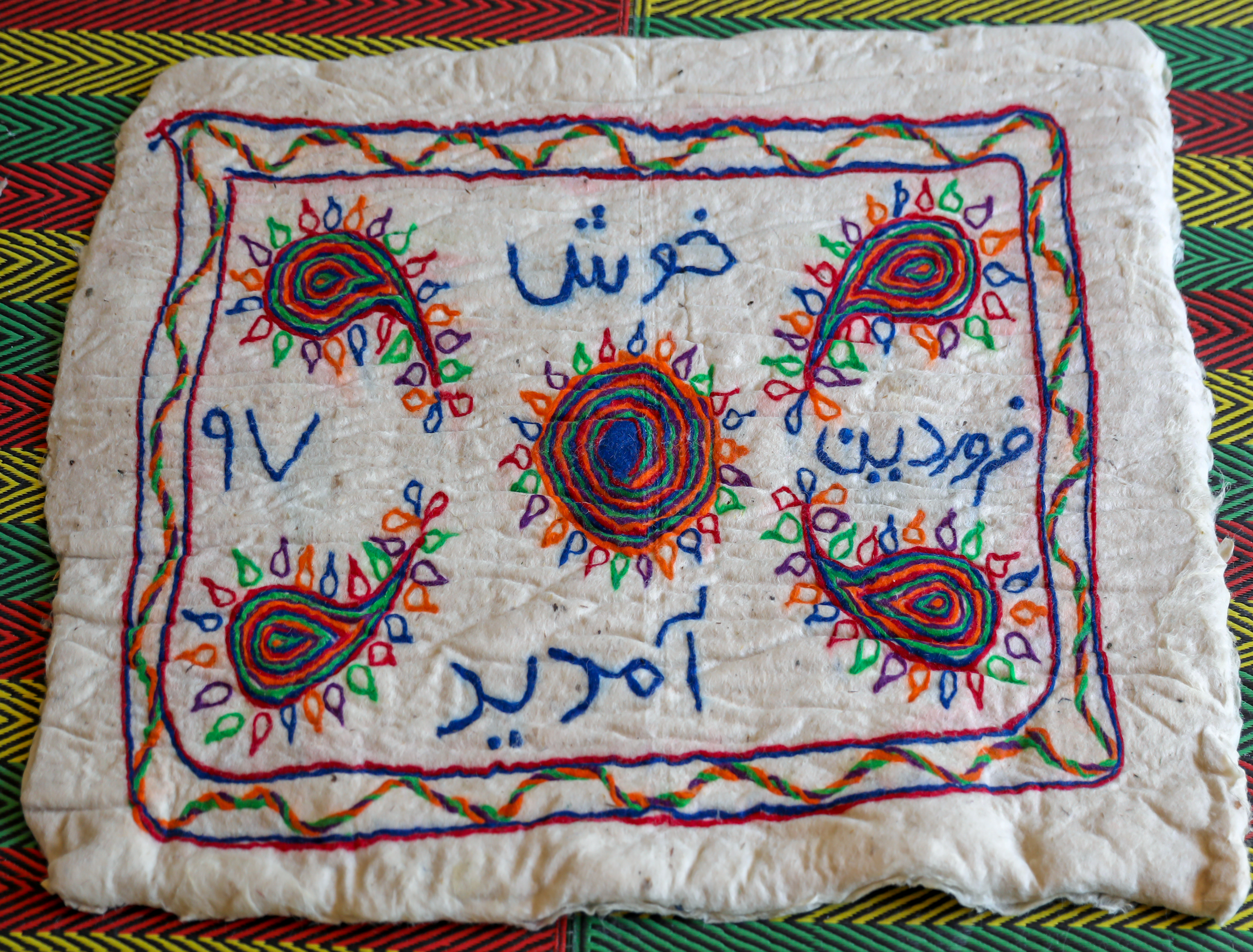 Felting in Raymond, Kerman province, Iran